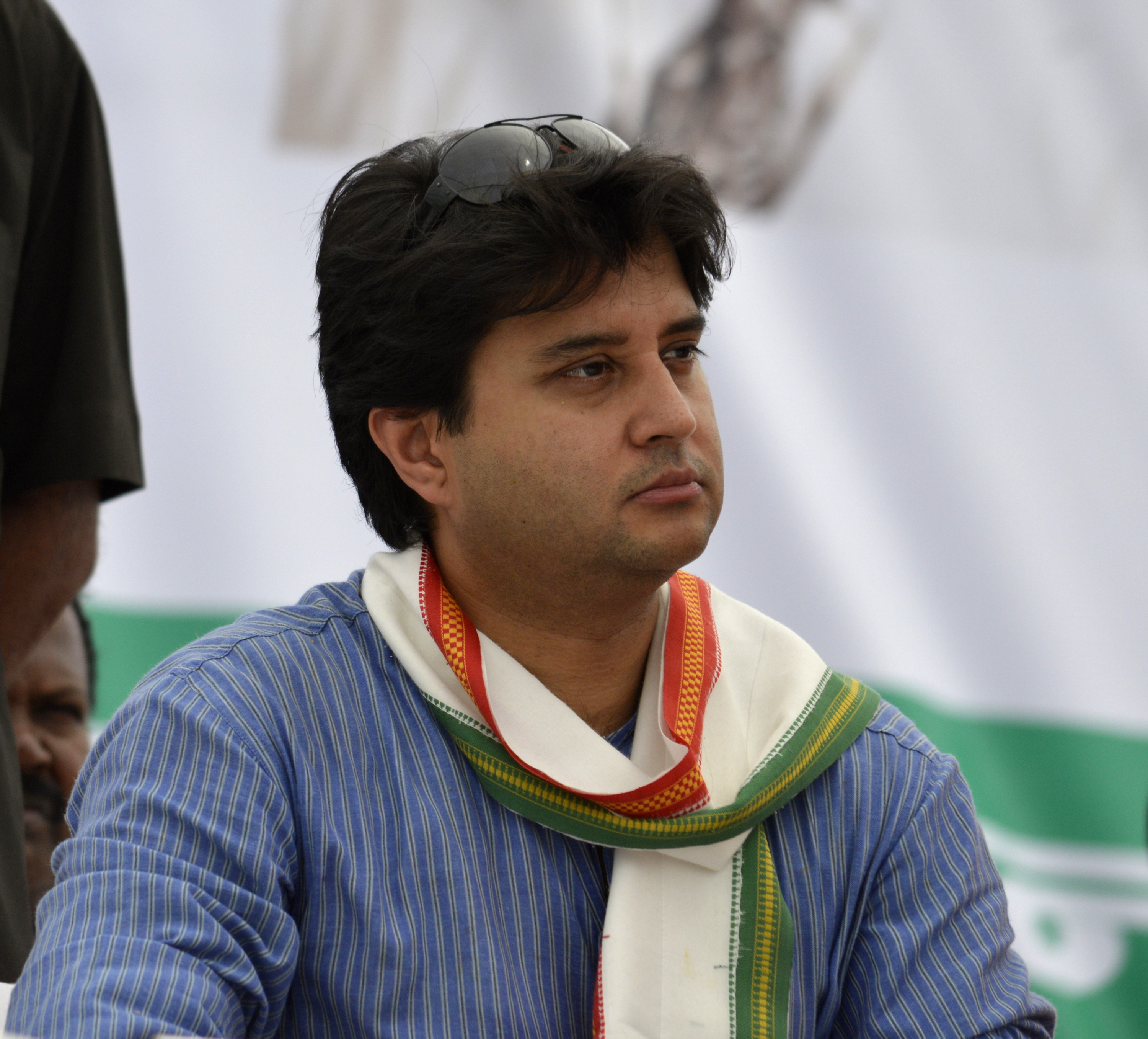 Jyotiraditya Madhavrao Scindia, at Gwalior, at the beginning of Jan Satyagraha 2012.